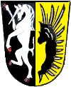 Coat of Arms of Oberbechingen